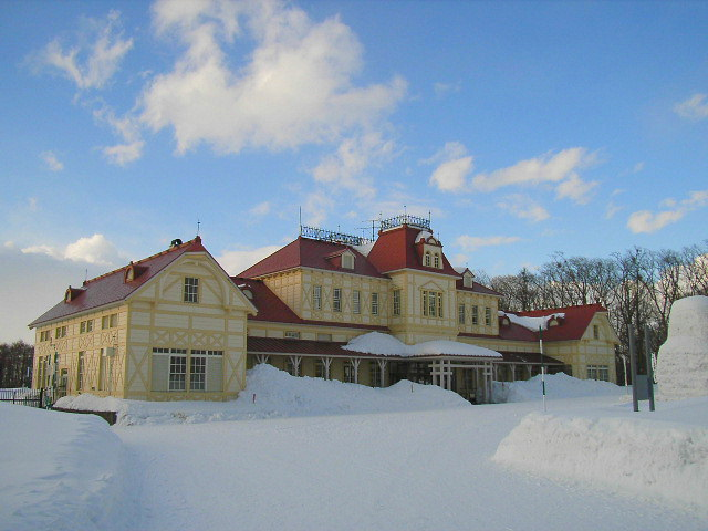 Sapporo Station Building in 1908 (Restoration) at the Historical Village of Hokkaidō. Atsubetsuchō-konopporo, Atsubetsu-ku, Sapporo, Japan.. Built in 1908 as the third station building, it had been used till 1952. This wooden two floors building remains the strong influence of American style in Hokkaidō. A little smaller than the original.